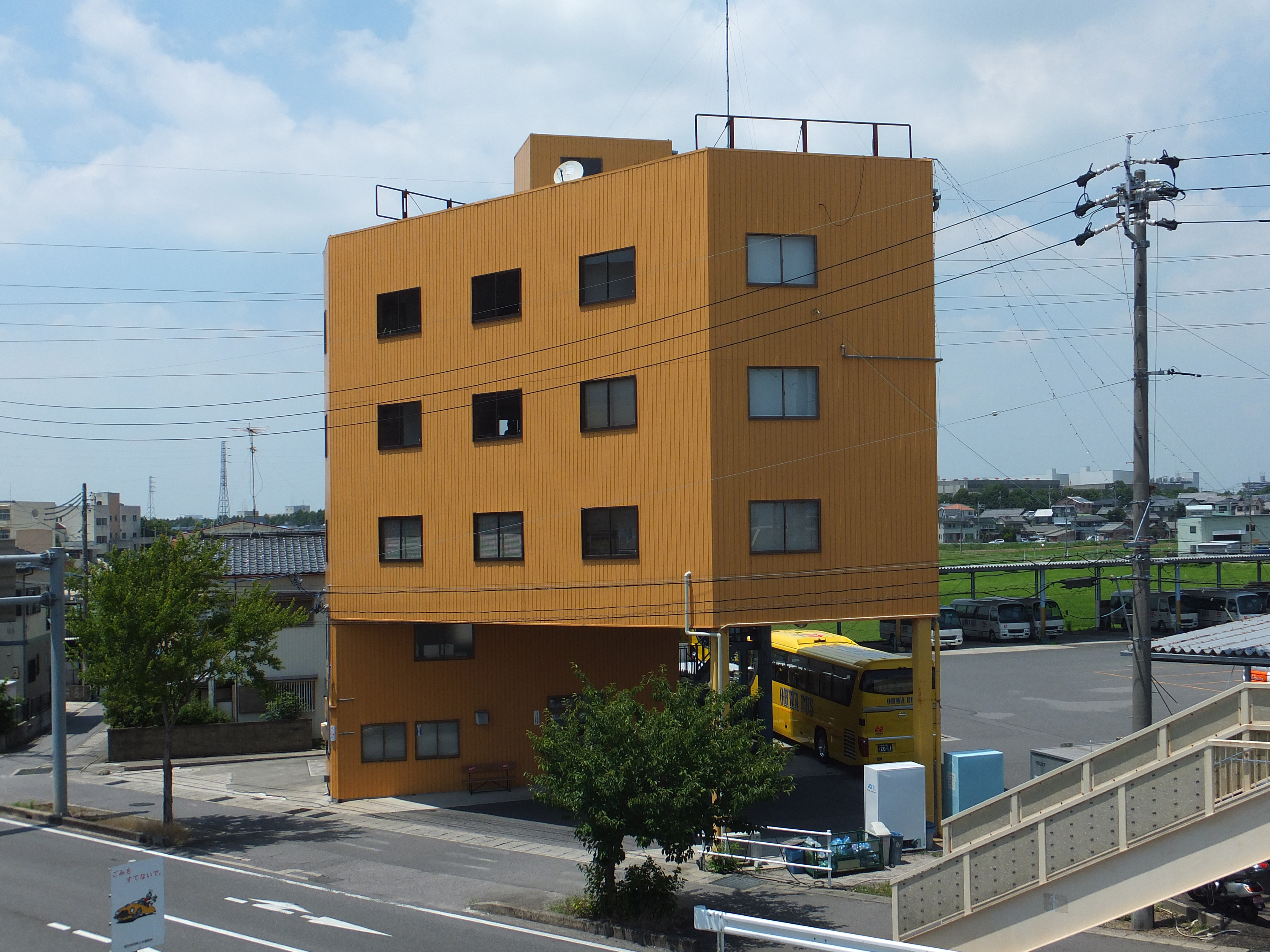 Headquarters of Ohwa (オーワ), located at 58-1 Nishigawara, Kitano-cho, Okazaki, Aichi, Japan